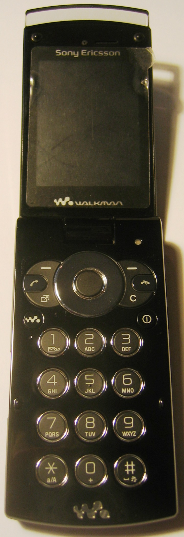 Sony Ericsson W980 Walkman phone. Camera used was a Canon Digital IXUS 430.